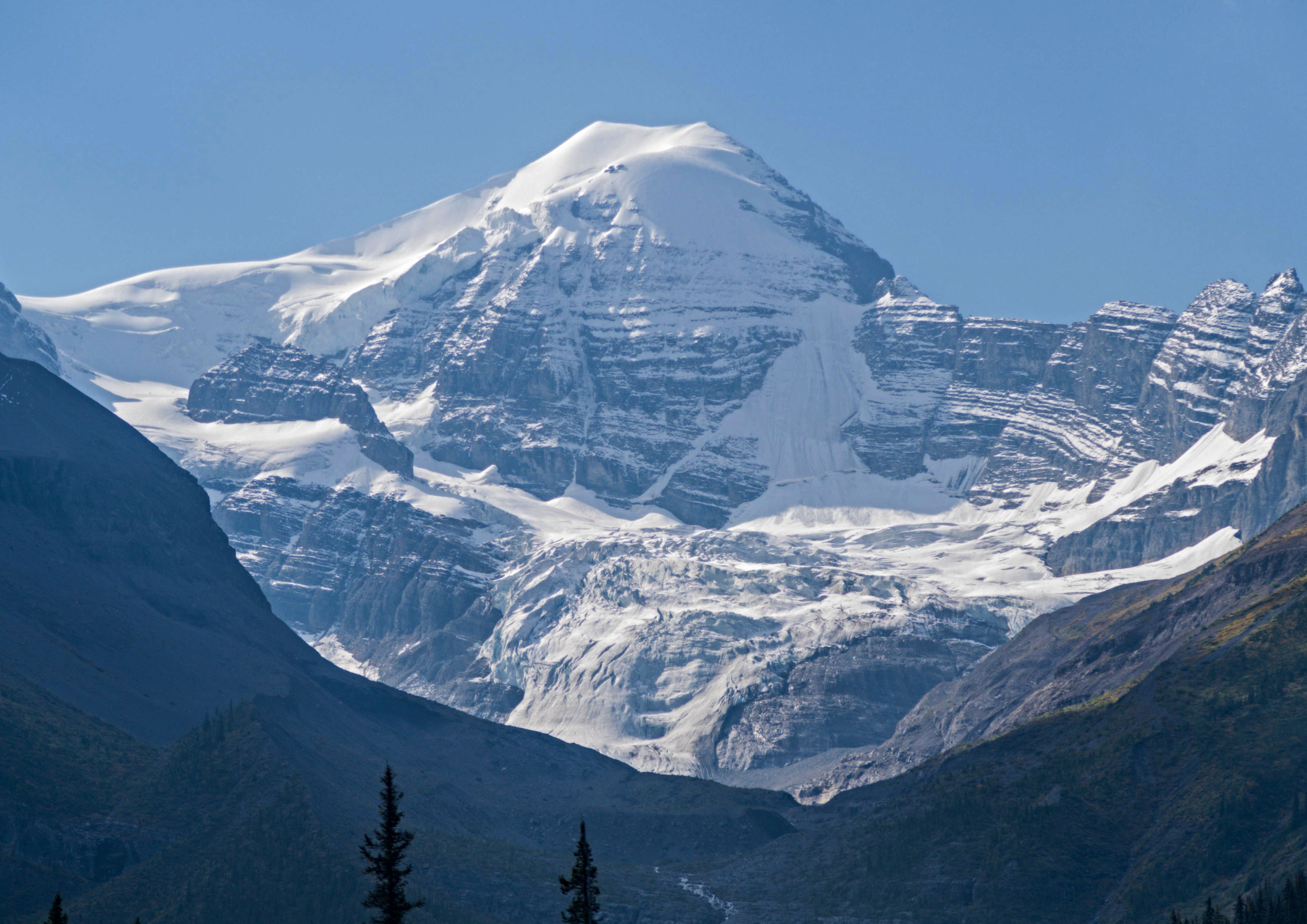 Mount Unwin at Miligne Lake, Jasper National Park, Canada